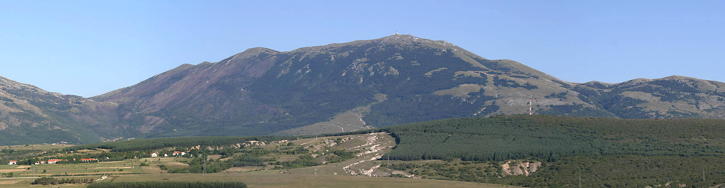 Tušnica